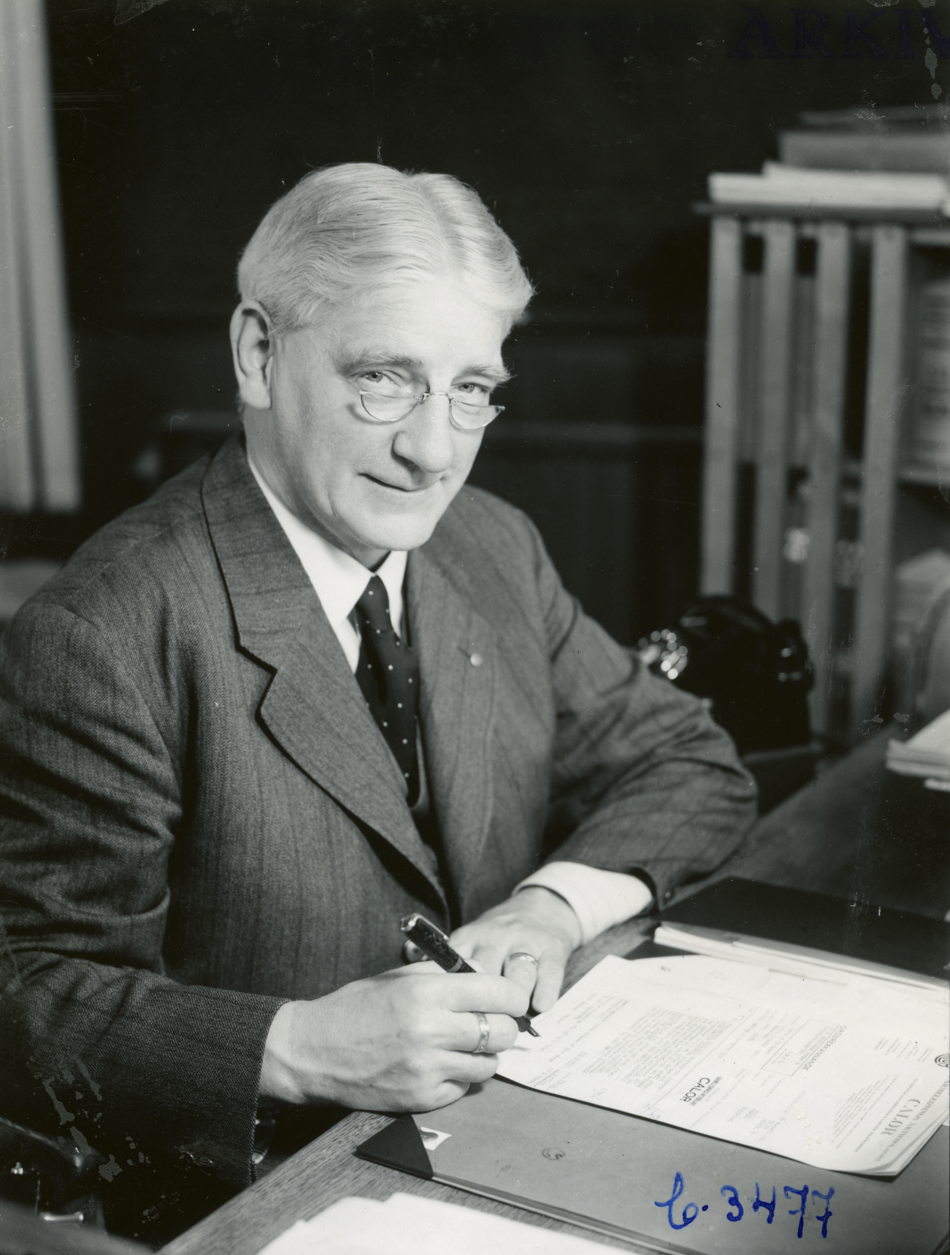 Porträtt av direktör C. L. Rydh. Chef för Värmelednings AB Calor, Ulvsunda 1942.